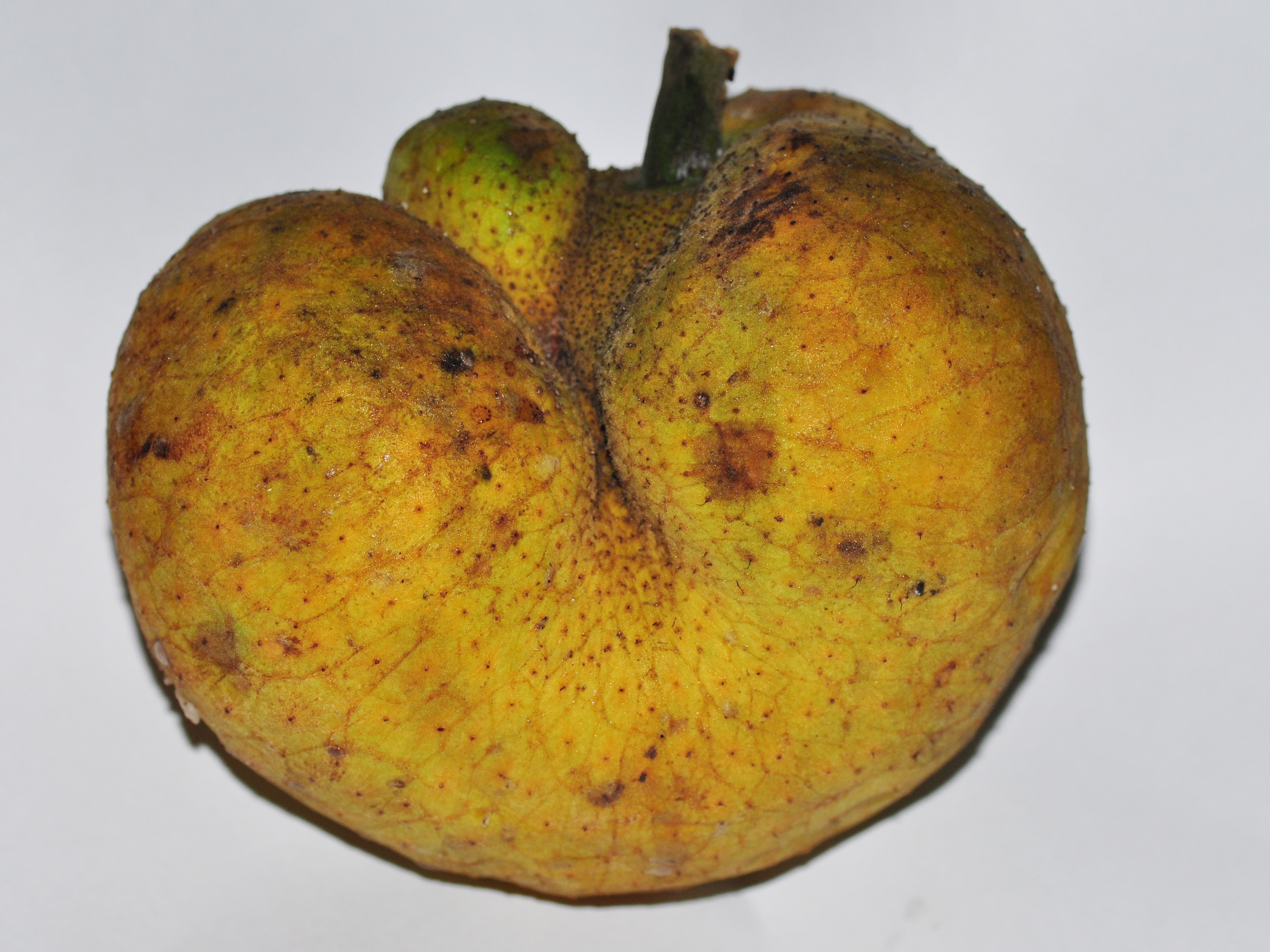 Lakoocha or Monkey Jack (Artocarpus lakoocha)